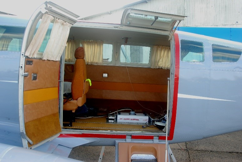 Integration of Storm sensor into the floor of a surveillance aircraft